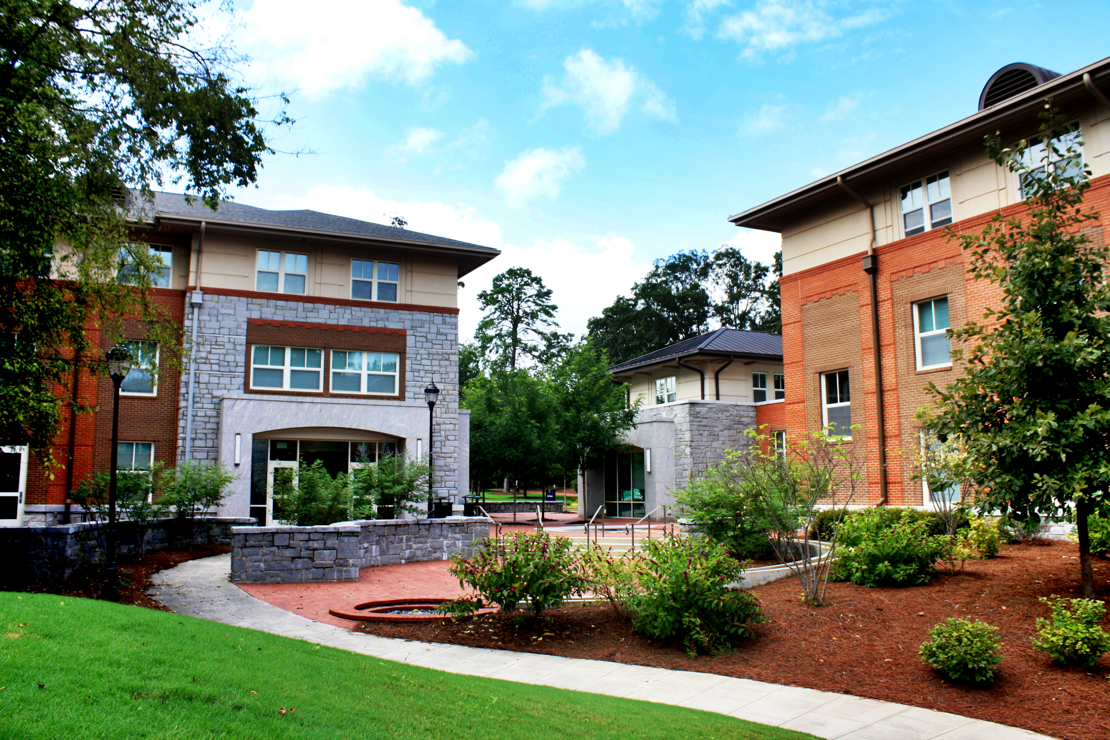 The East Village residential buildings (Beta on the left and Alpha on the right) were constructed in 2008 and are the newest dormitories at Oxford College of Emory University.